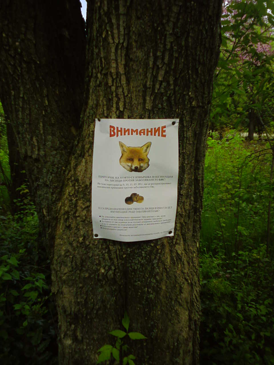 Rabies